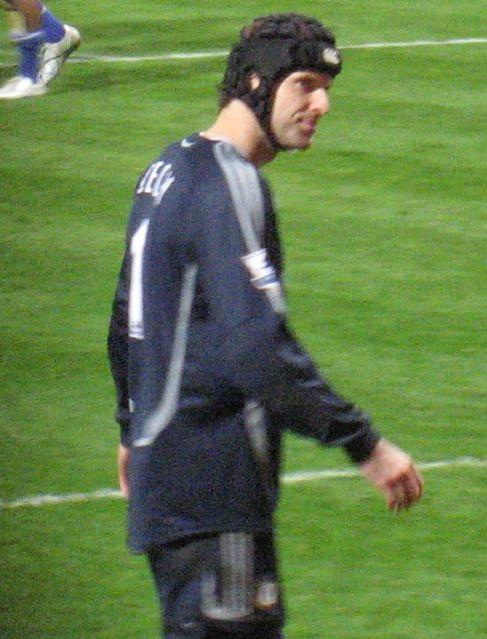 Czech football (soccer) player Petr Cech